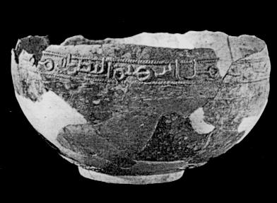 Umayyad pot from dated in 96 AH, made in Hirah, Iraq